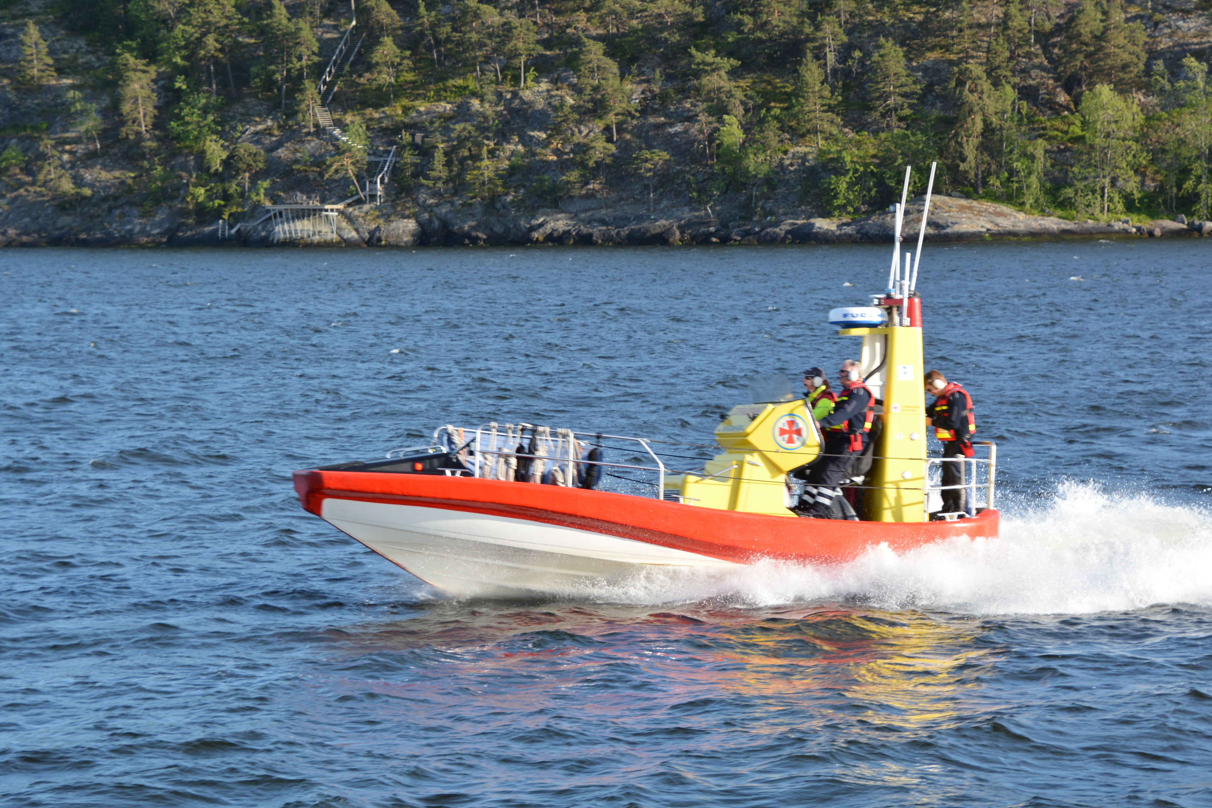 Rescue Pantamera from Räddningsstation Stockholm, Swedish rescue vessel